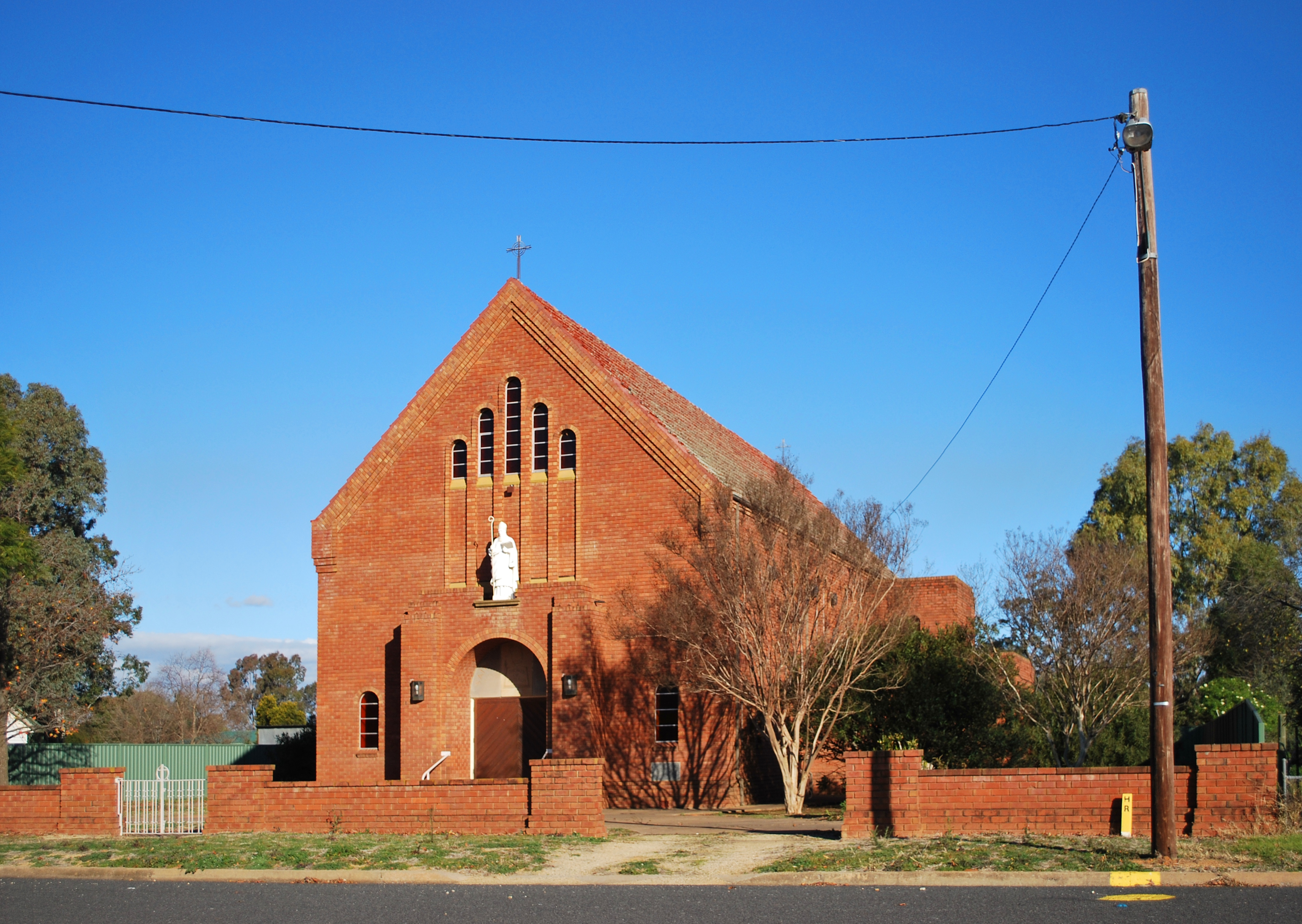 St Malachy's Roman Catholic church at Gooloogong, New South Wales